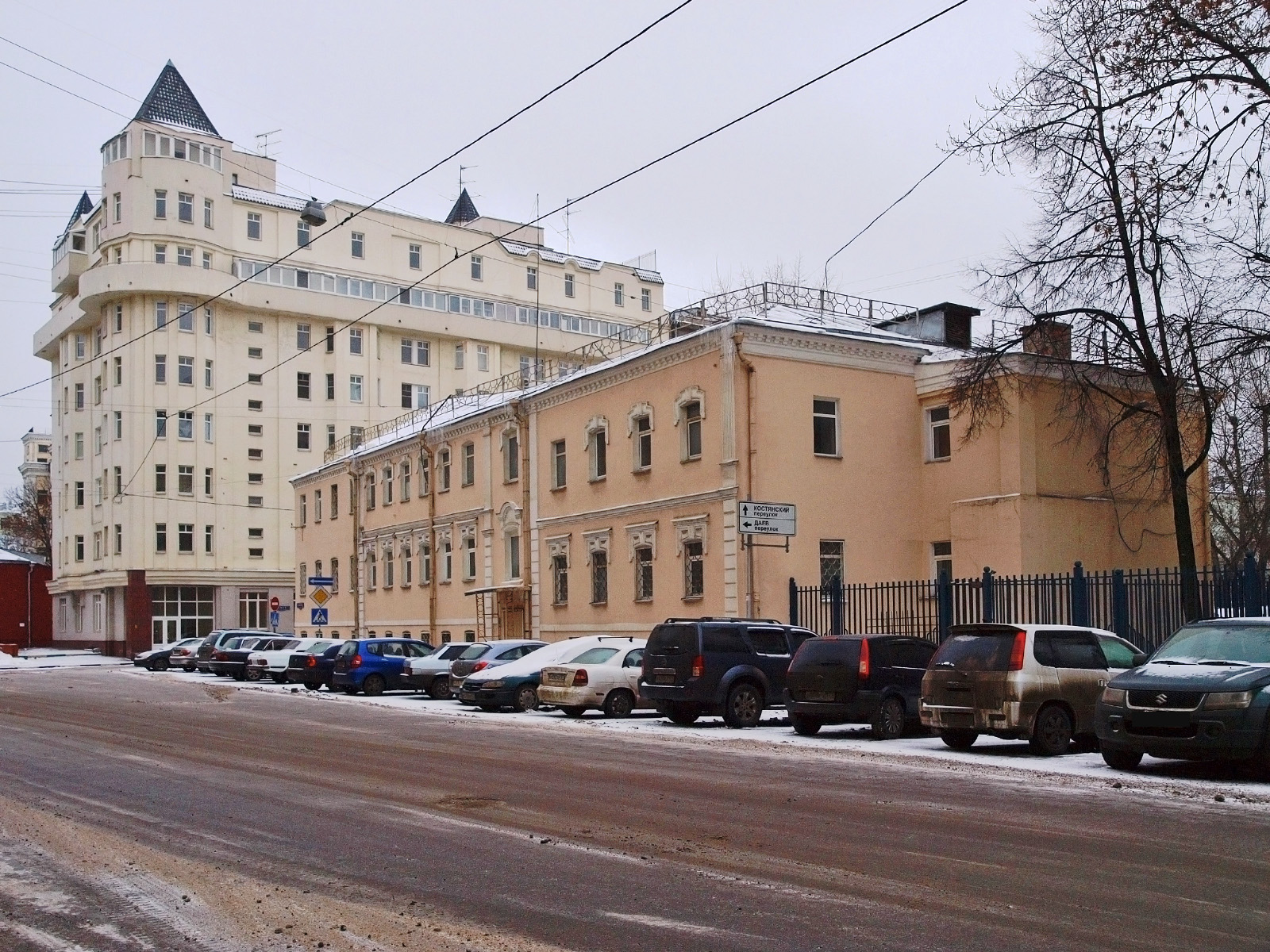 Ananyevsky Lane, Moscow.